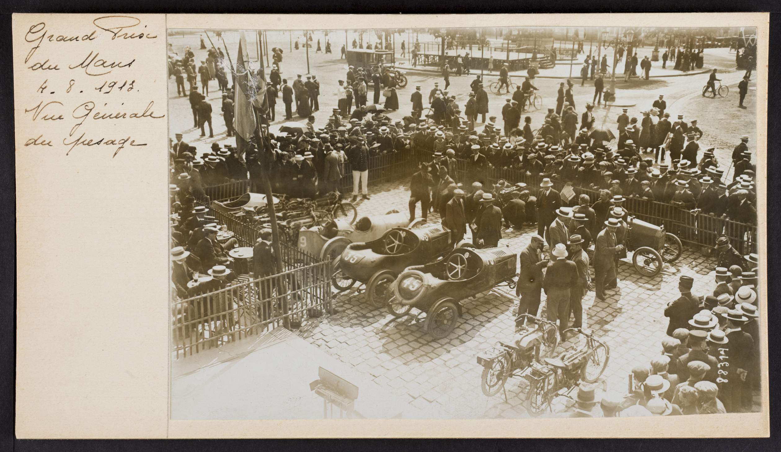 Grand prix du Mans. 4 août 1913. Vue générale du pesage.